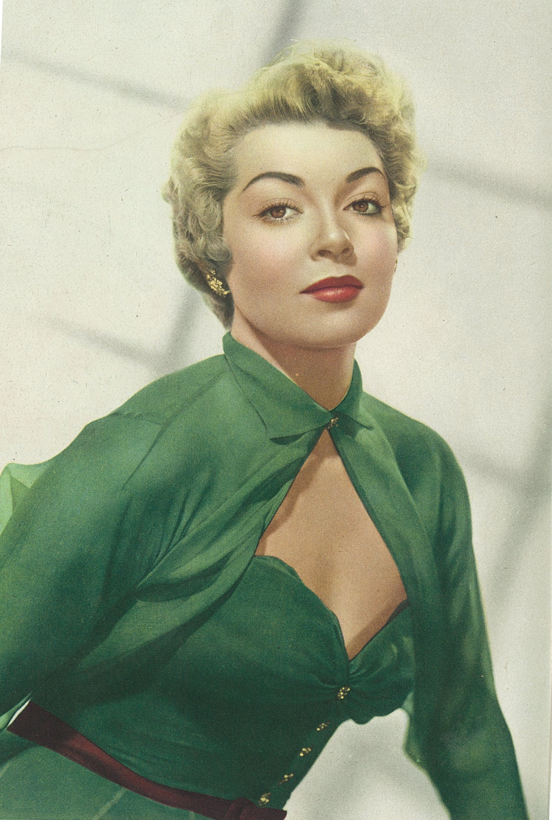 Eiga No Tomo (映画之友) February 1951 page 2 featuring Lana Turner (ラナ・ターナー)